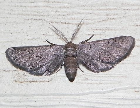 6/12/12 Franklin County Photo and ID thanks to Jack Foreman